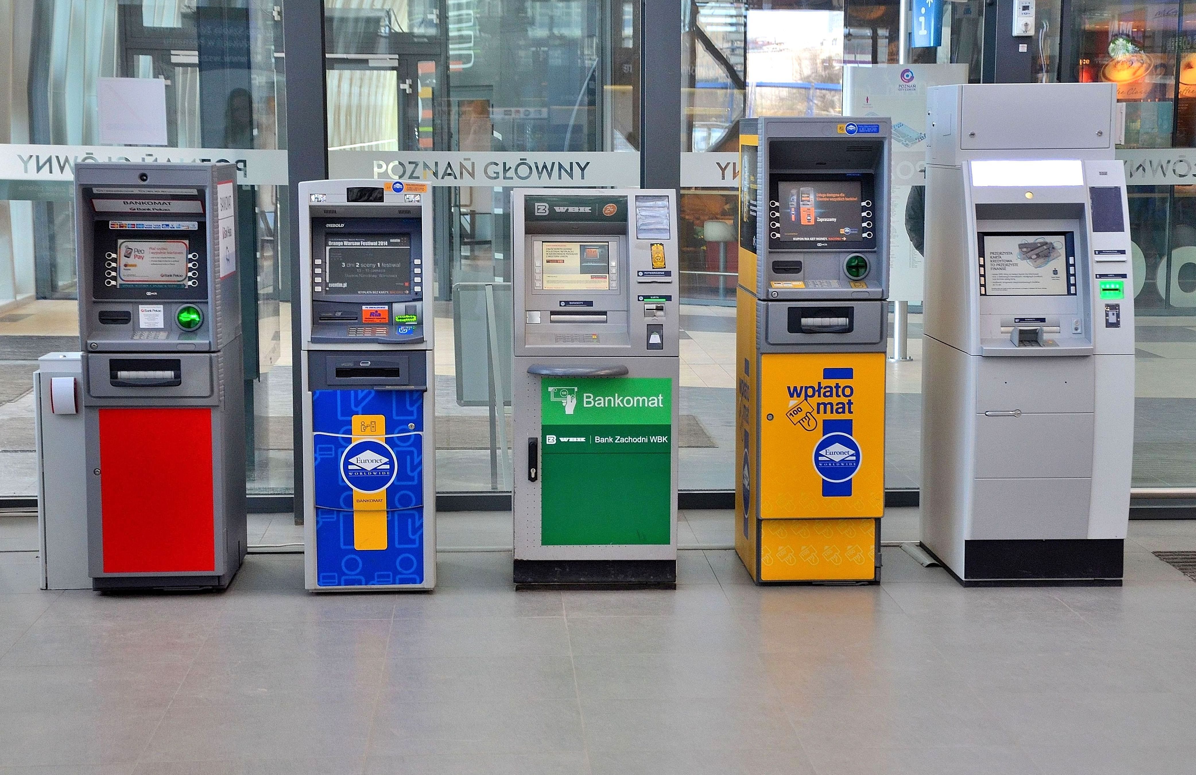 ATMs at the Poznań Główny railway station